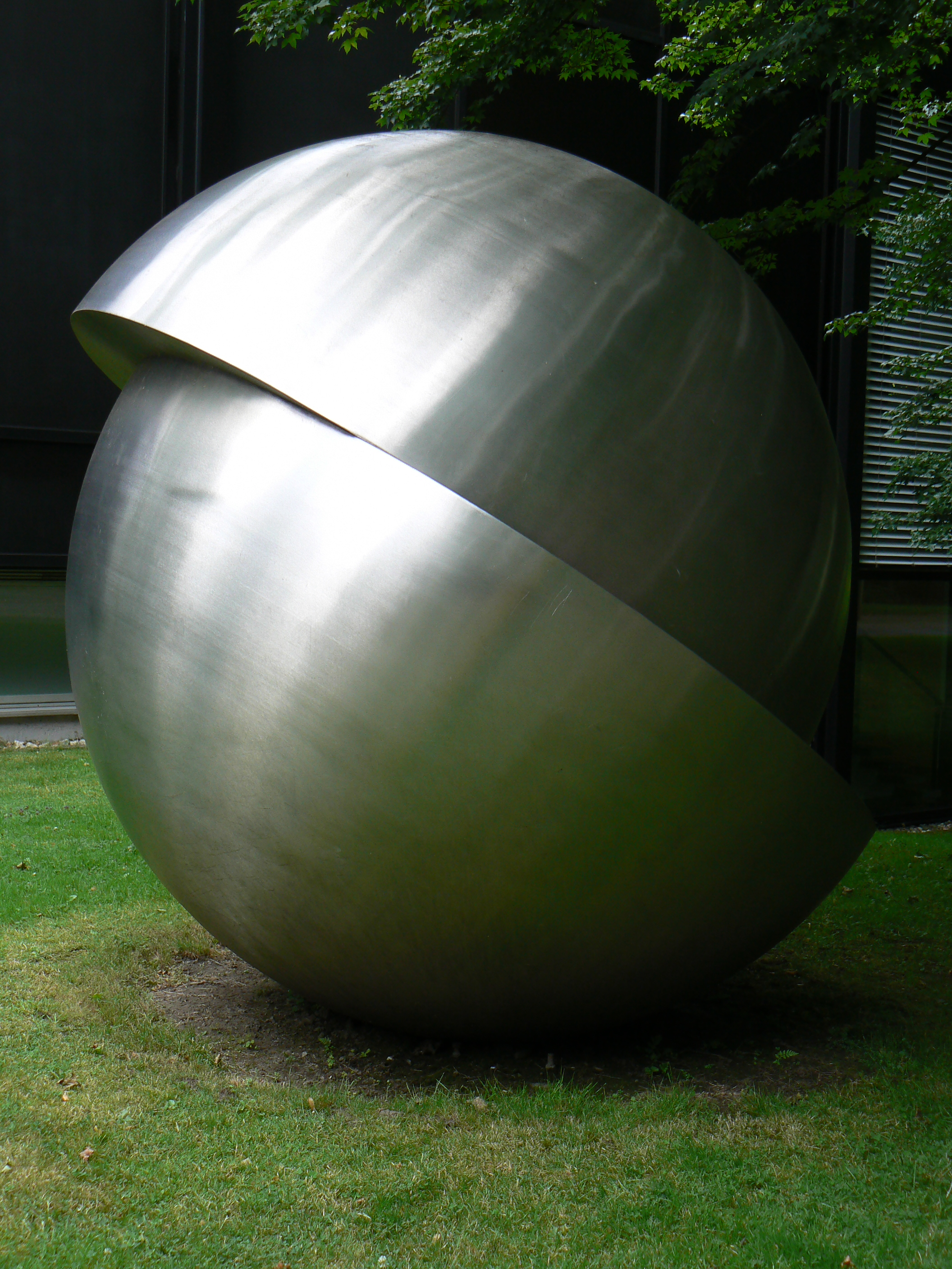 Sculpture in sculpturepark Quadrat Bottrop (Moderne Galerie) in Bottrop/Germany. Sculptor: Ernst Hermanns Titel:Zwei gegeneinander verschobene Halbkugeln (1977)